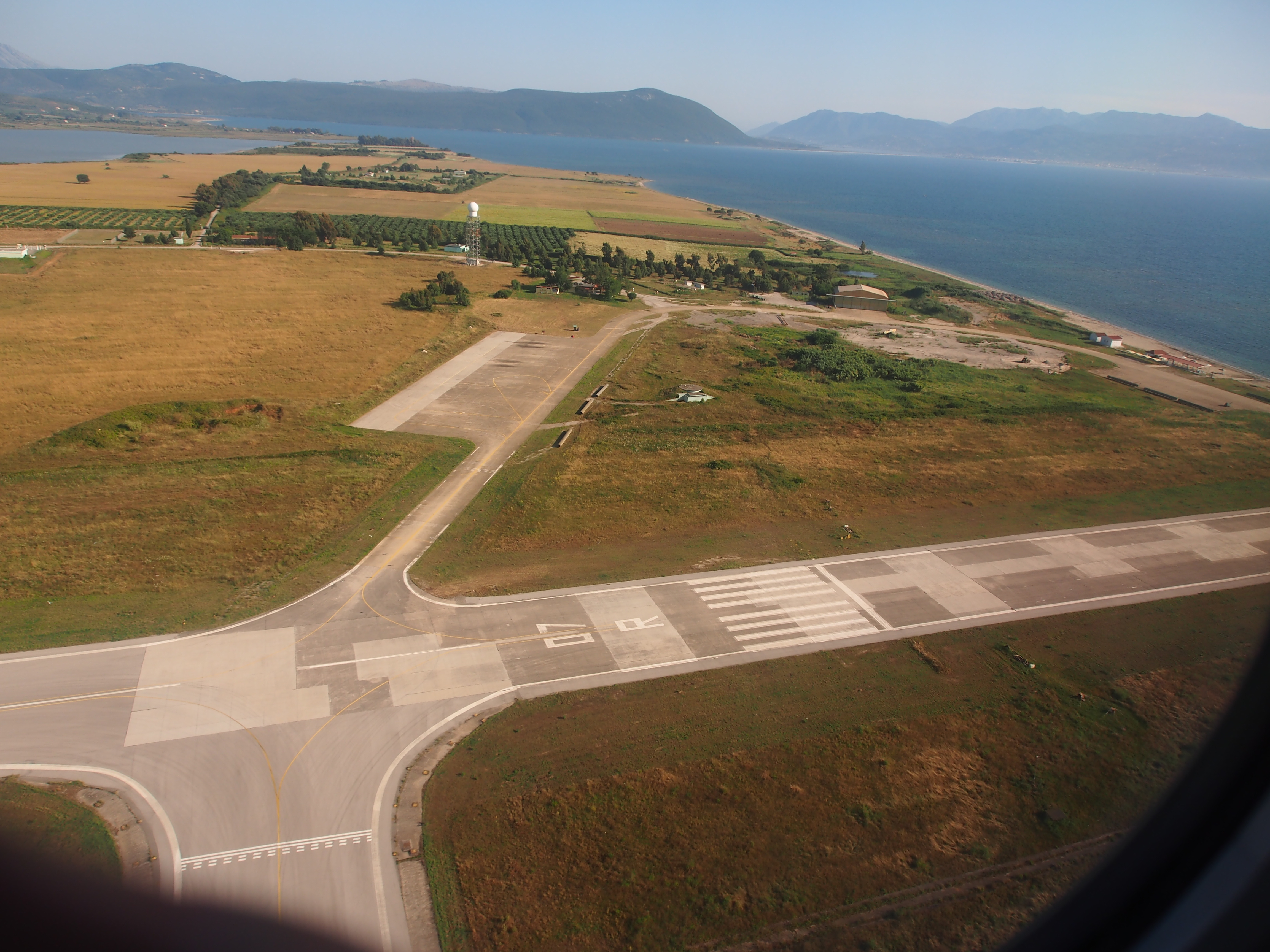 Photographed in Lefkada, Greece.